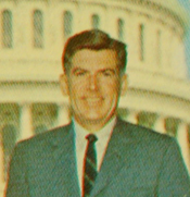 former congressman and Governor of Connecticut Thomas Joseph Meskill.